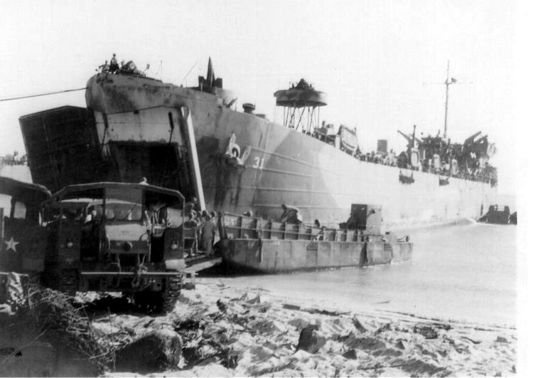 LST-31 off-loading over the beach at Englhi Island, Eniwetok Atoll, Marshall Island, circa February-March 1944. Official US Navy photo taken from